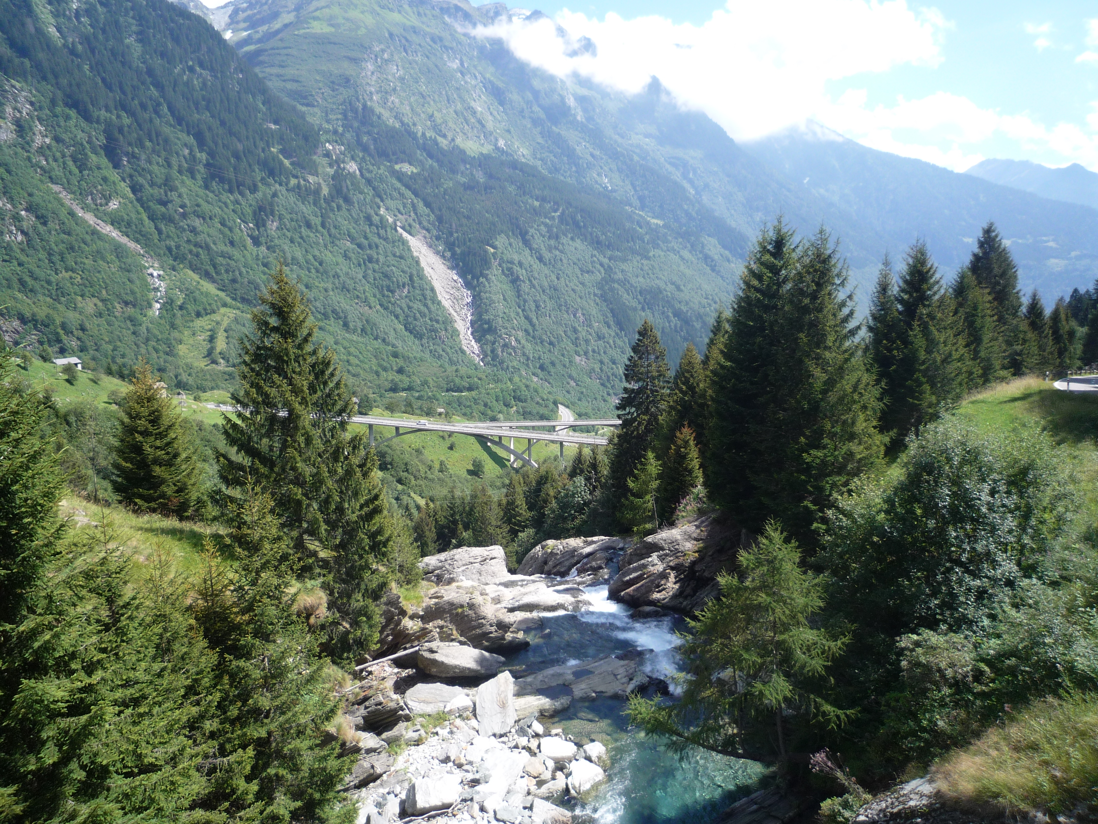 Outside Mesocco, Switzerland